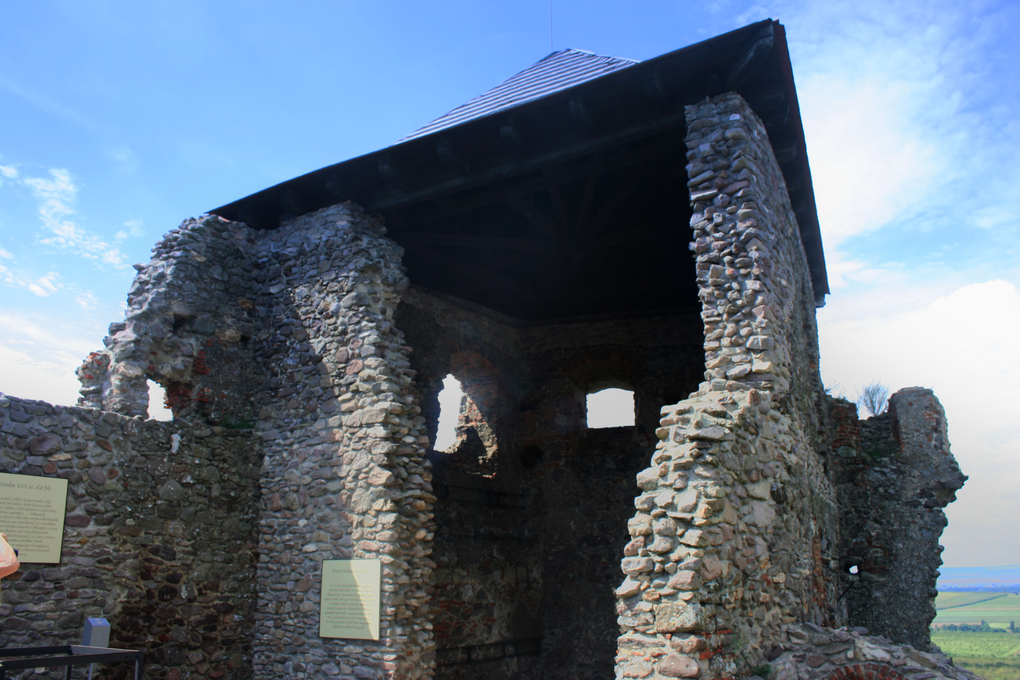 Hungary / Boldogkő Castle - XIV century tower